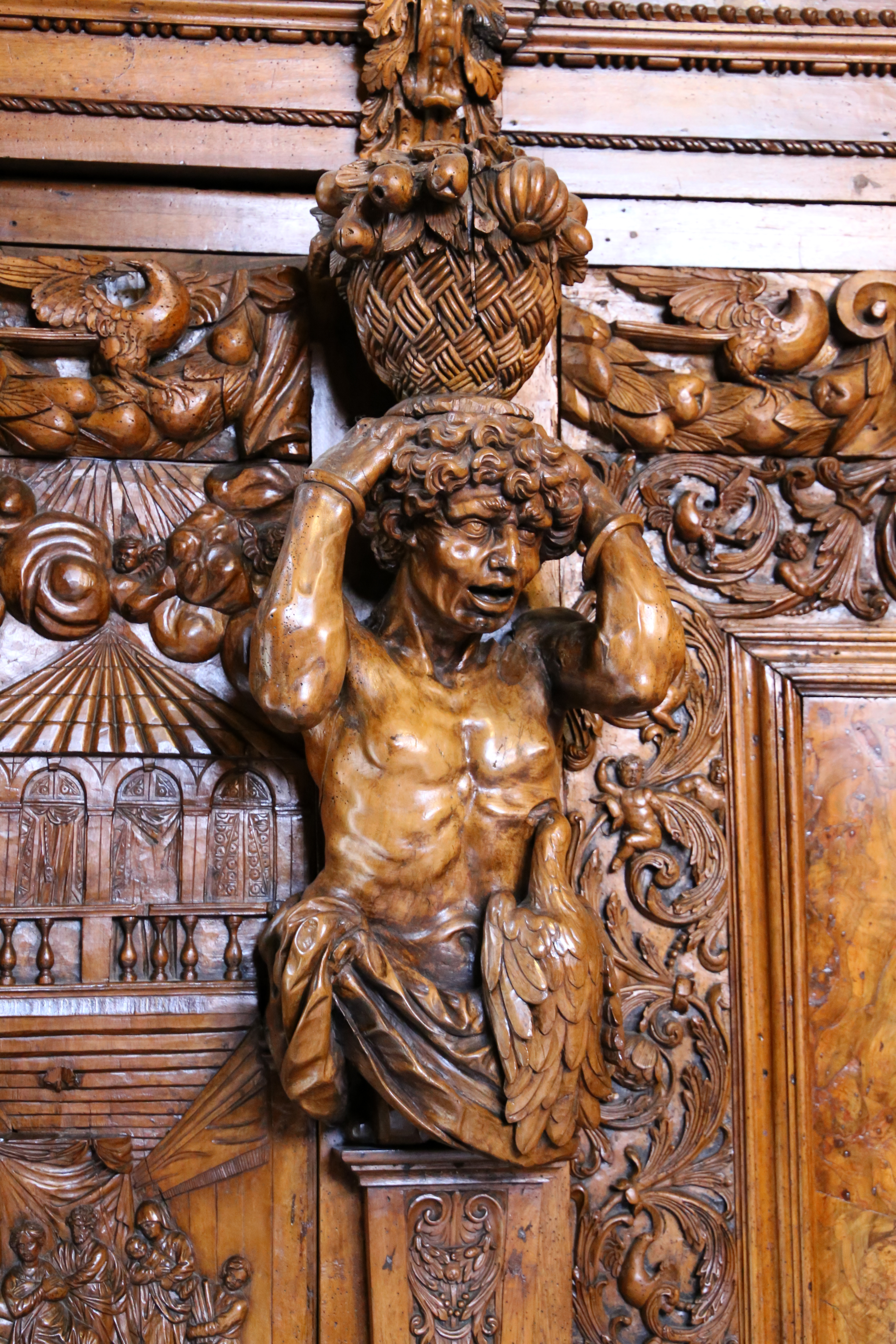 San Pietro Martire (Murano) - Vestry